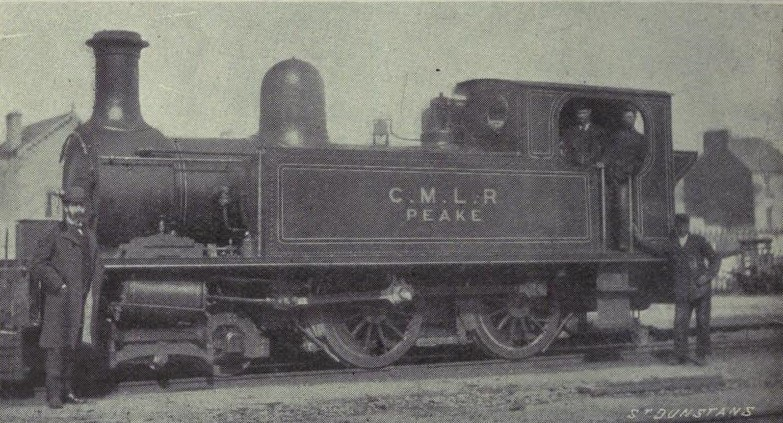 GS&WR 4-4-0 express passenger locomotive